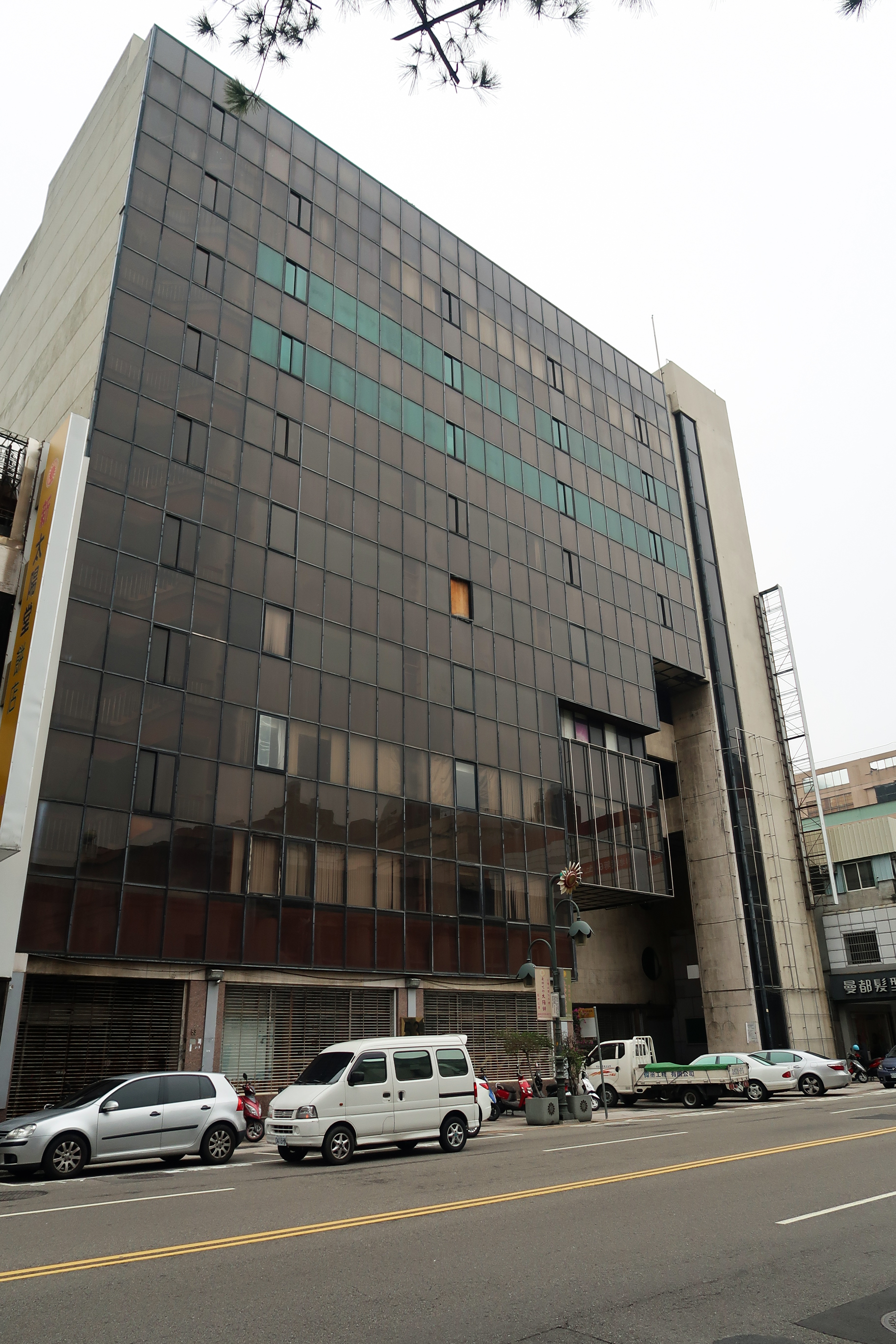 Ex_EVERGEEN_Department Store Taichung Store